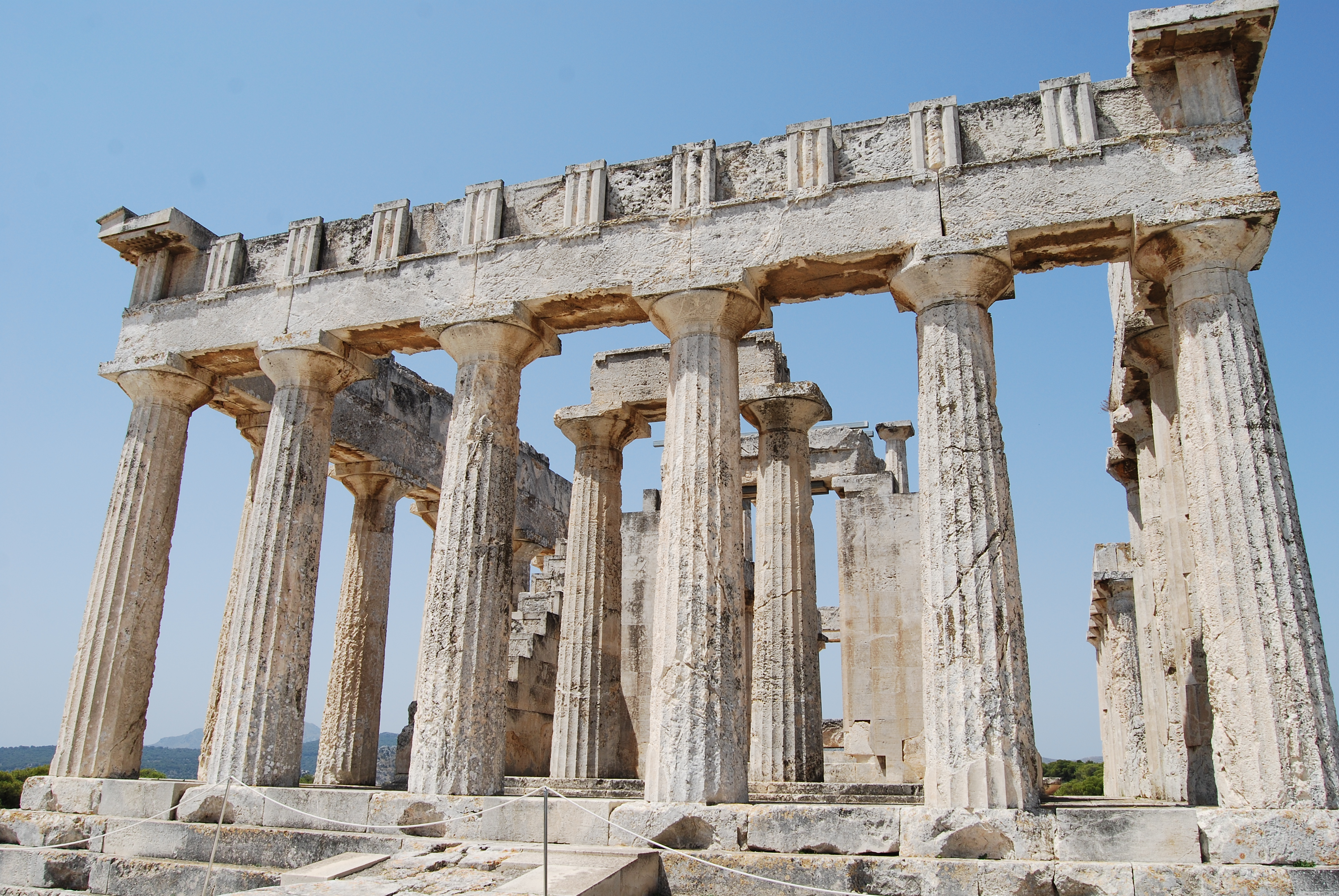 Aegina, Temple of Aphaea